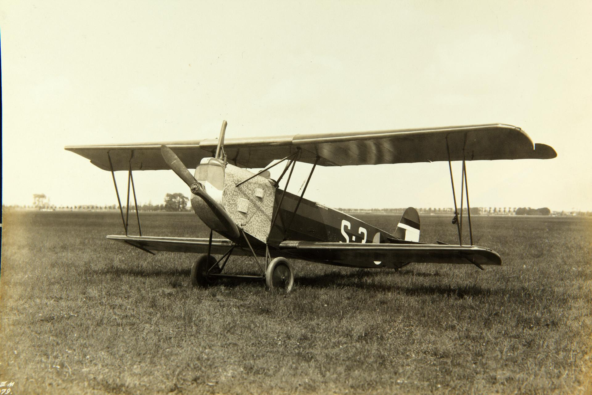 Catalog #: 01_00080425 Title: Fokker, S.III Corporation Name: Fokker Additional Information: Germany Designation: S.III Tags: Fokker, S.III Repository: San Diego Air and Space Museum Archive Fokker S.III (S-3 marks) in Marine Luchtvaartdienst (MLD) service.